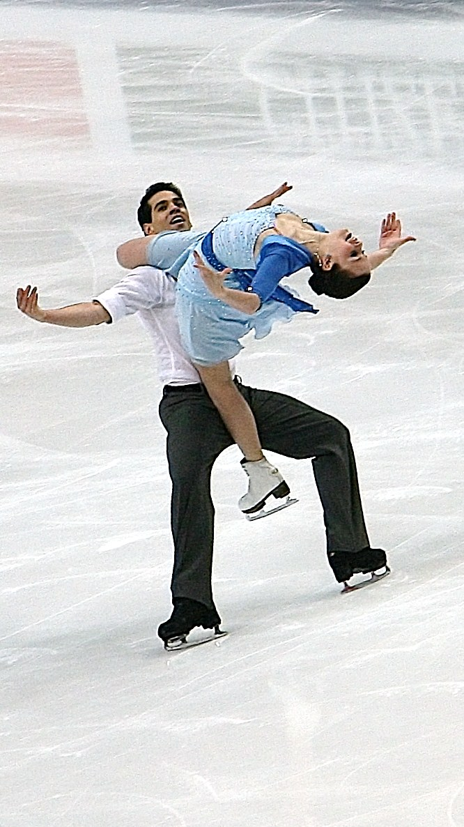 Anna Cappellini and Luca Luca LaNotte at the 2011 World Figure Skating Championships